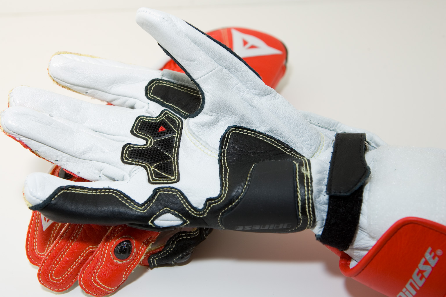 Armoured racing motorcycle gloves by Dainese - showing the palms